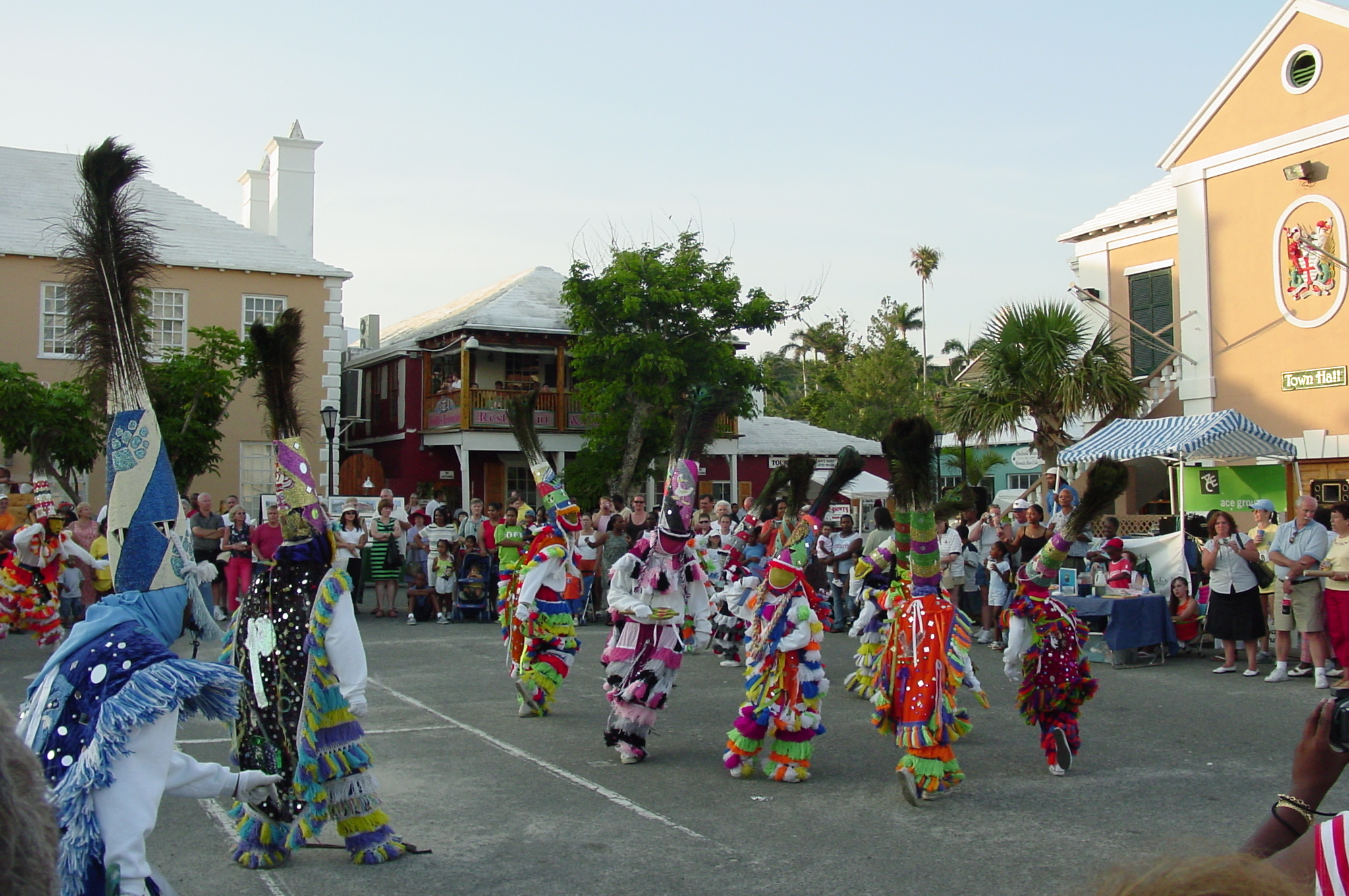 Gombey dancers performing in Kings Square,St. George's, Bermuda.